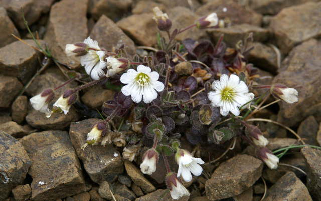 Shetland Mouse-ear (Cerastium nigrescens) Known more commonly in Shetland as Edmondston's Chickweed, it was discovered by the botanist Thomas Edmondston in the 1830s and the discovery published when he was still only aged 12. His promising biological career was cut short when he was accidentally killed on an expedition in South America, aged 21. Shetland Mouse-ear is now recognised as a Shetland endemic (found nowhere else in the world) following recent taxonomic decisions.